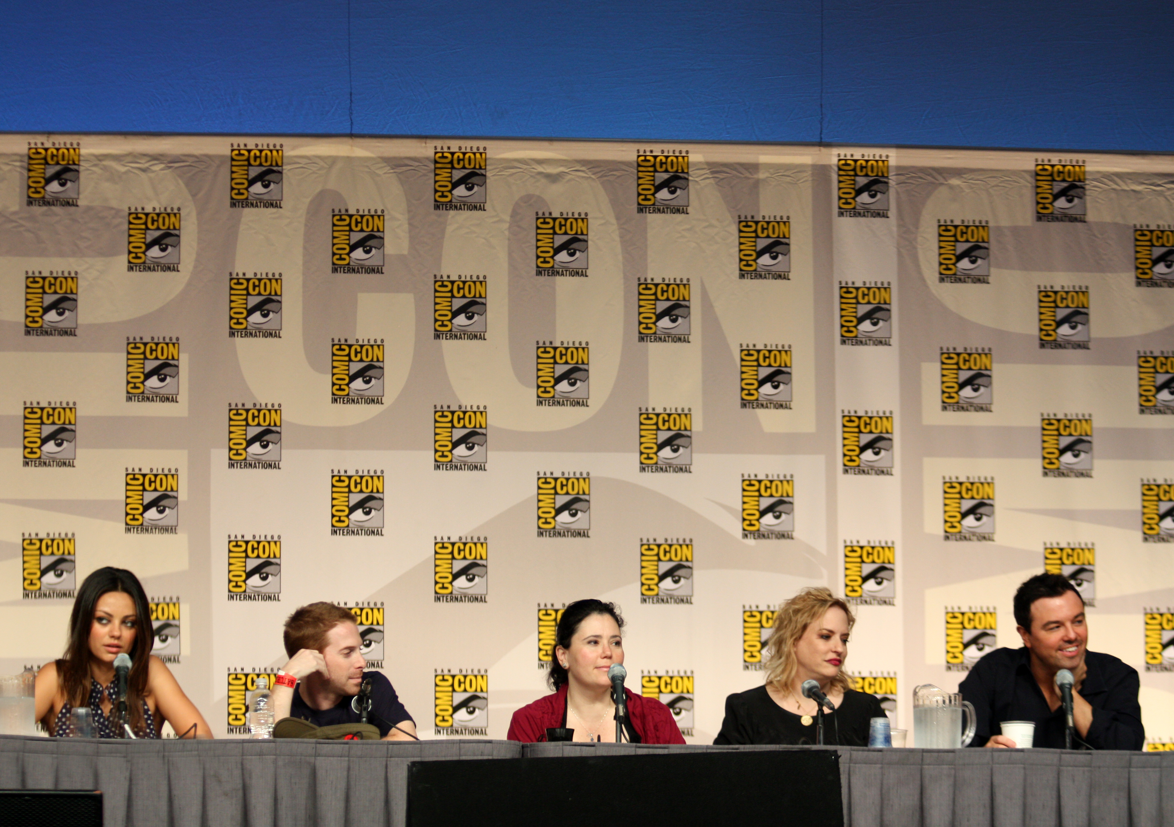 The main cast of Family Guy, along with producer Kara Vallow, at the 2009 Comic Con in San Diego. From left to right: Mila Kunis, Seth Green, Alex Borstein, Kara Vallow and Seth MacFarlane.